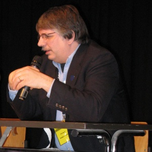 Walter H. Hunt at the DORT.con (a german science fiction convention) in 2009